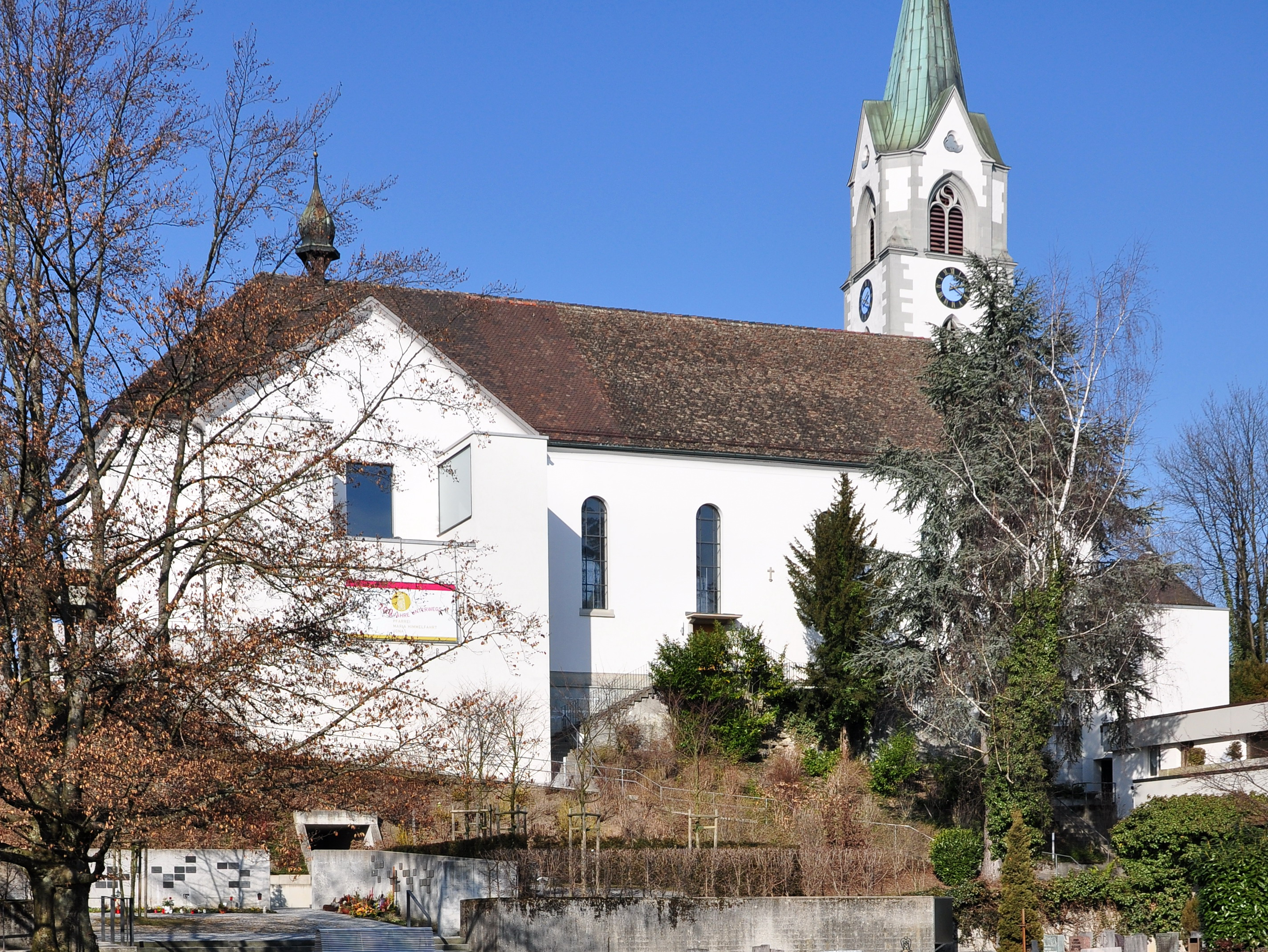 Mariae Himmelfahrt & St. Valentin in Jona (Switzerland) as seen from the cemetery.